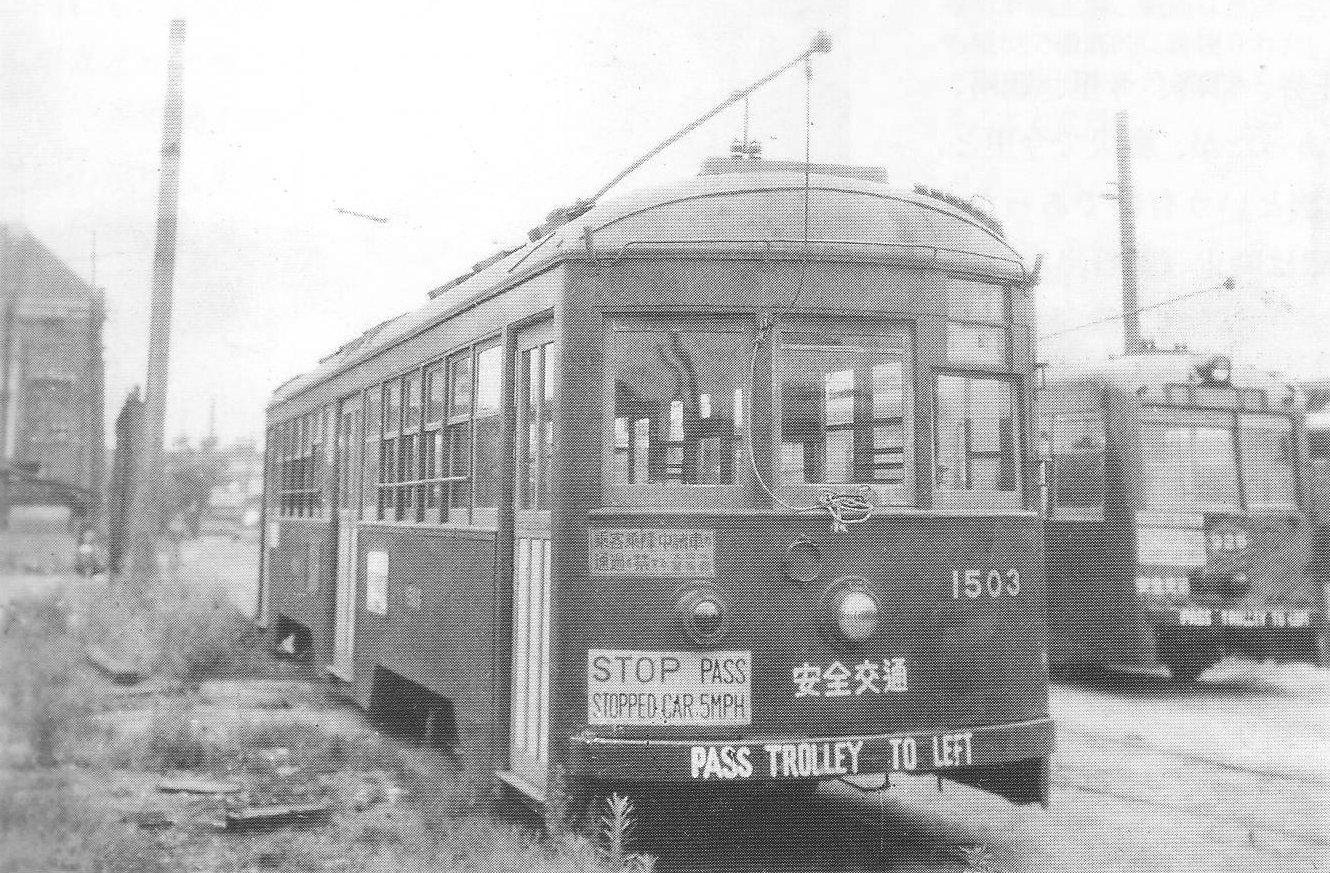 Osaka City Tram 1503.